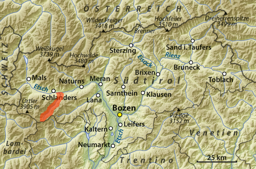 Location of Martellvalley in the general map of the Province of Bolzano-Bozen, Italy